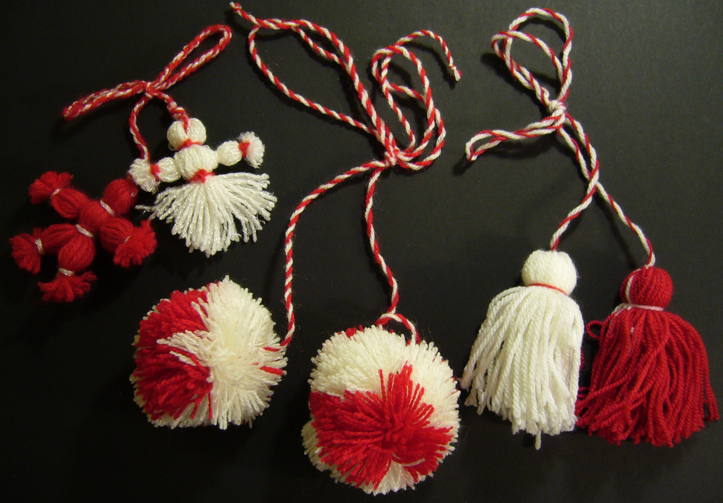 Martenitsa, or Pijo and Penda, a Bulgarian tradition, celebrating the spring arrival. See also: Martenitsa. Alt. spellings: Martenitza, Pizho and Pendo, Martenitsi, Martenichki, Martenichka, Martenica.